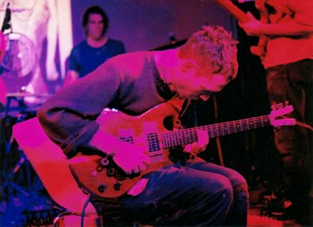 Godspeed You Black Emperor! performing live on London, England. November 2000 Photo by Justin Lynham.